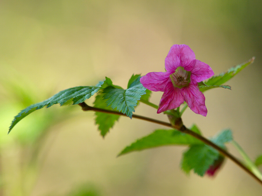 Salmonberry flower (Rubus spectabilis) at the Auke Village Recreational Area in Juneau, Alaska, USA.